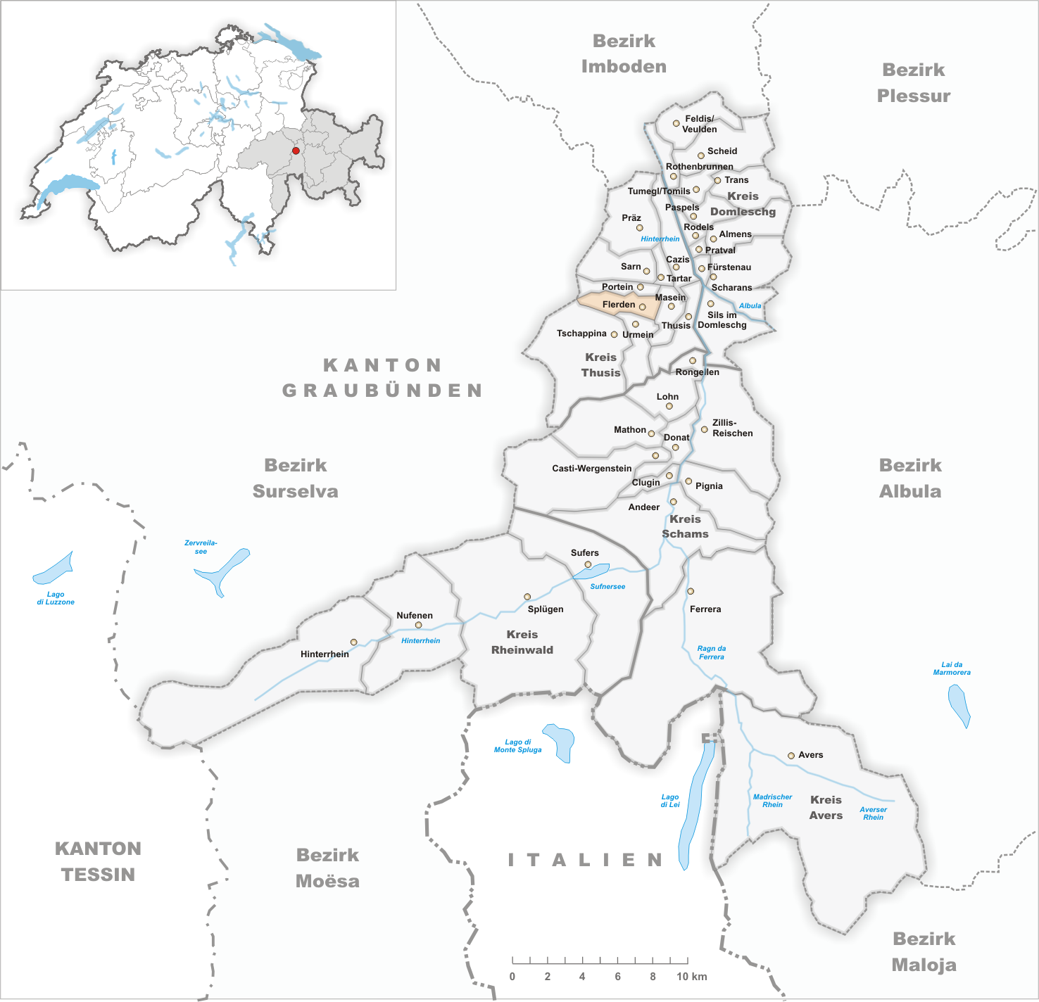 Municipality Flerden